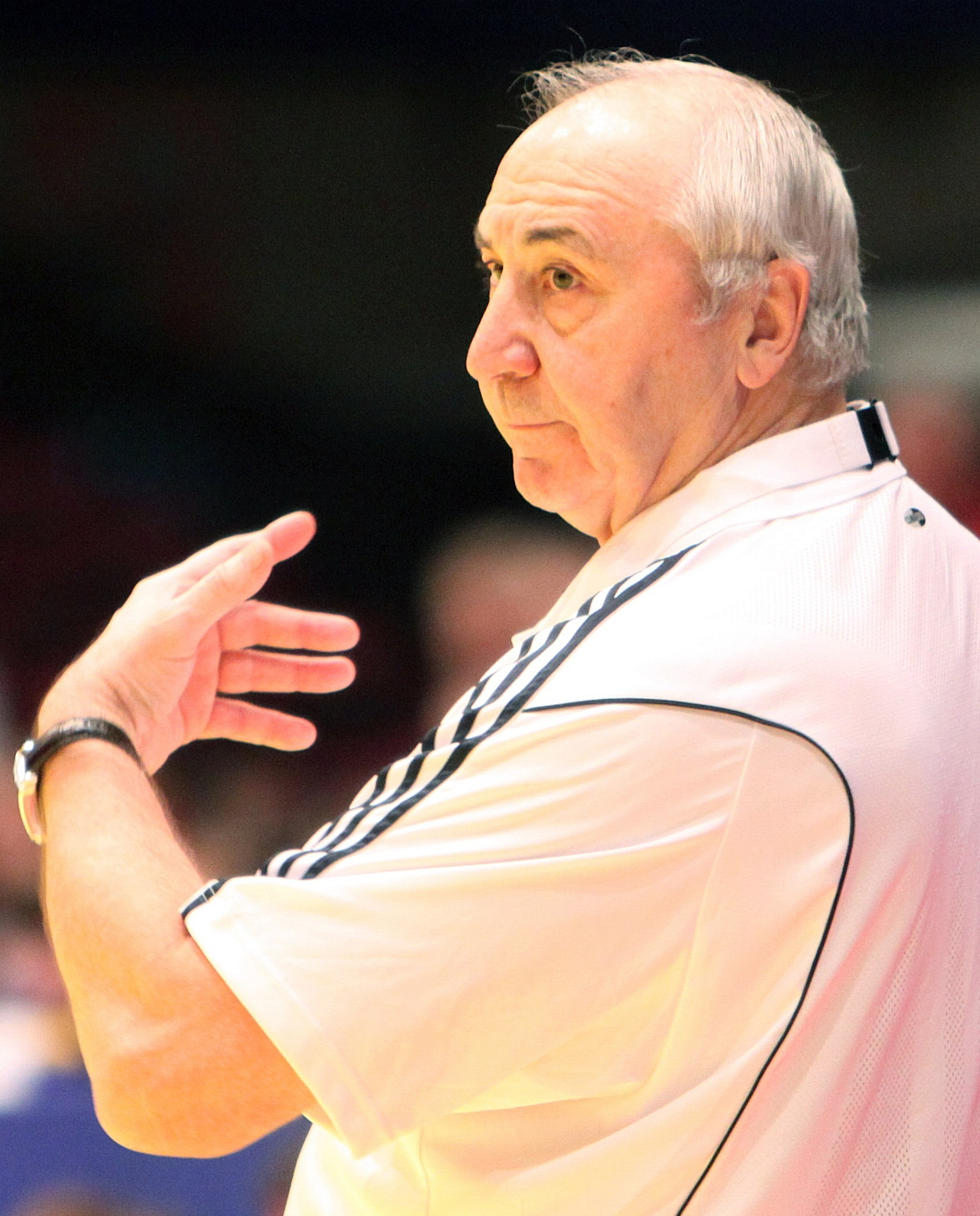 Vladimir Maximov (Teamchef), Russia national handball team